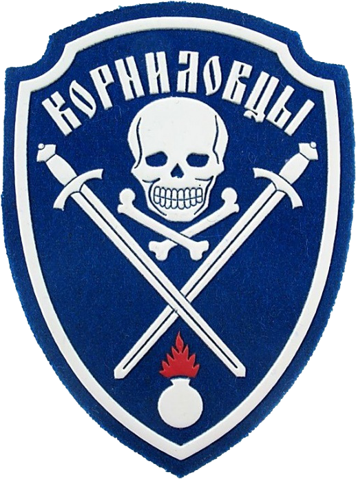 Kornilov Shock Regiment patch (Russian Civil War 1917-1922)